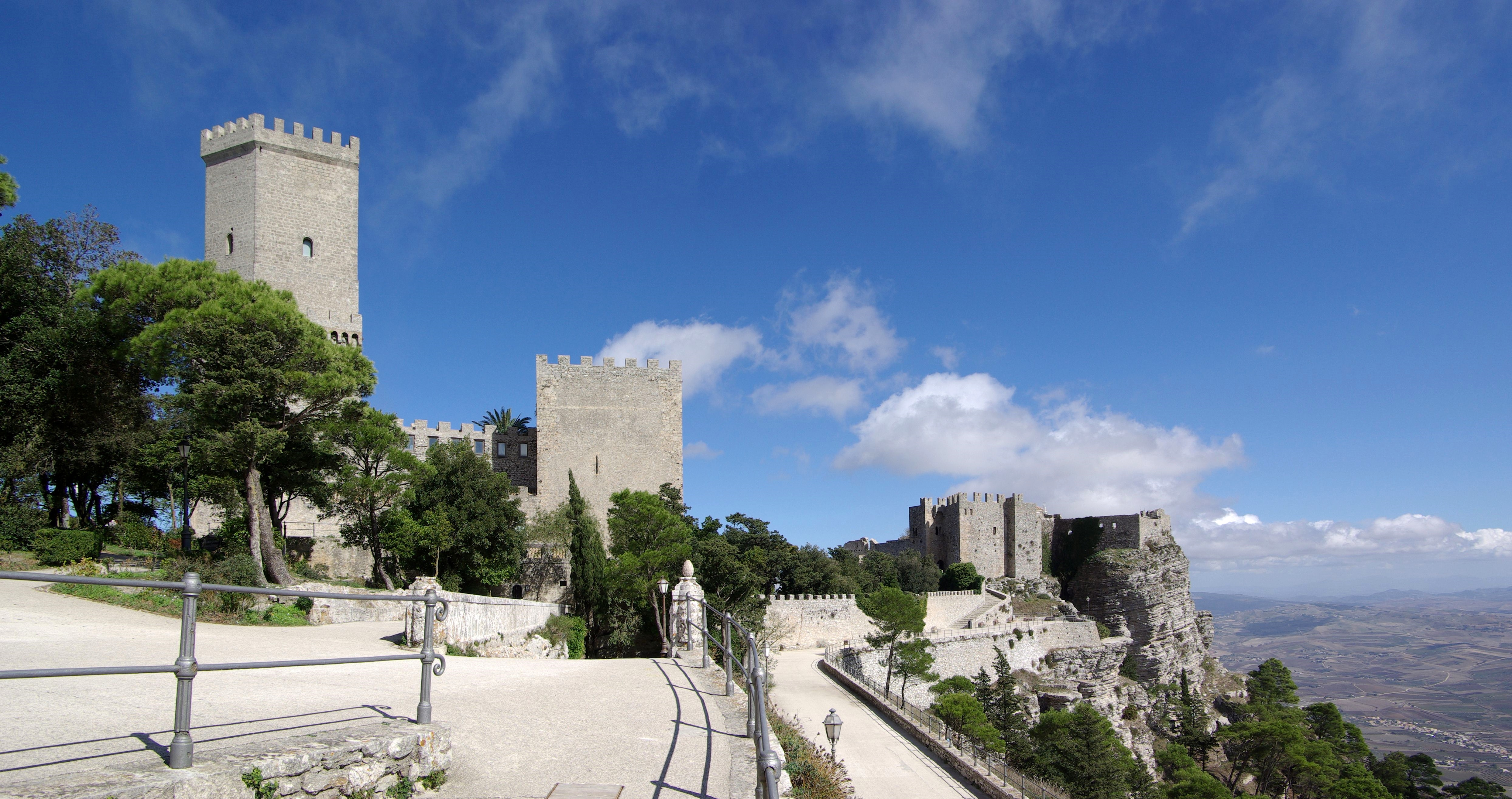 Italy, Sicily, Erice, castles